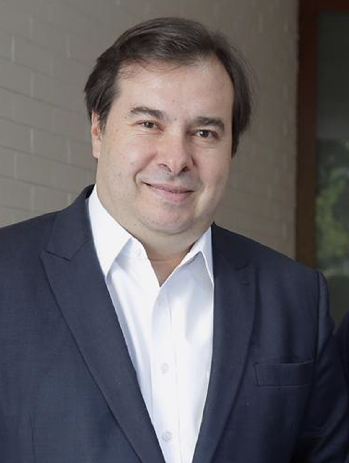 O Governador do Estado de São Paulo, João Doria, durante audiência com o Presidente da Câmara dos Deputados, Rodrigo Maia. Local: Brasilia/DF. Data: 03/10/2019 Foto: Governo do Estado de São Paulo